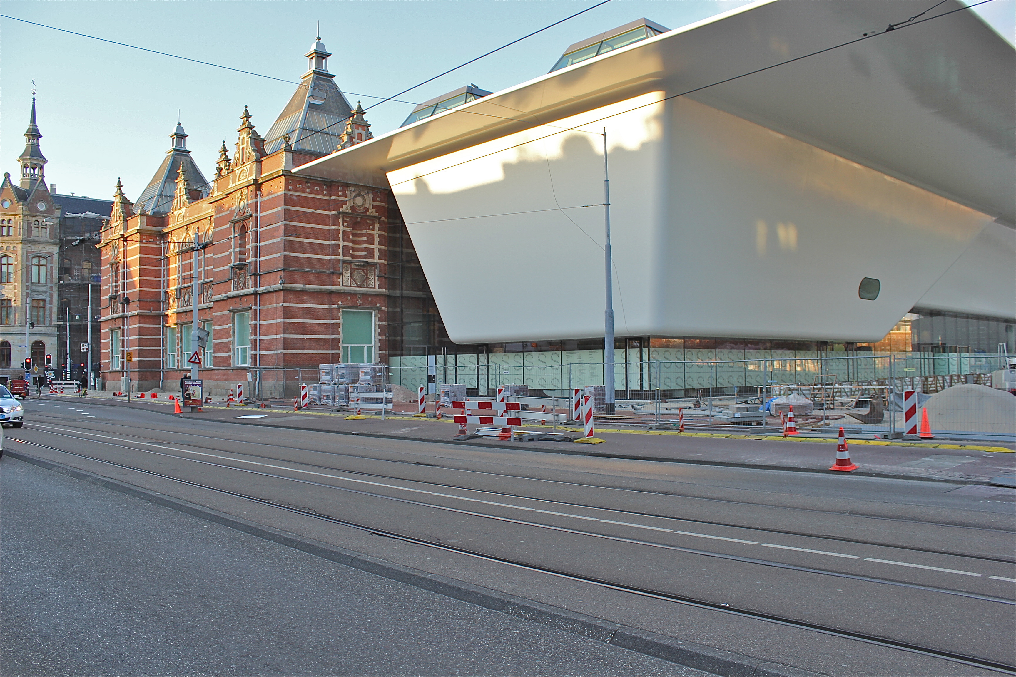 Stedelijk Museum Amsterdam seen from Van Baerlestraat.